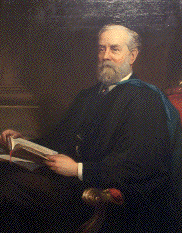 A portrait of Thomas Spencer Baynes, done in 1888 by Lowes Cato Dickinson (1819 – 1908), a Victorian painter from London. It now hangs in the Senate Room of the University of St. Andrews in Scotland. Baynes was the chief editor of the celebrated 9th edition of the Encyclopædia Britannica, in which he was assisted after 1880 by William Robertson Smith. Baynes was the first English-born editor of the Britannica; all earlier editors were Scottish.